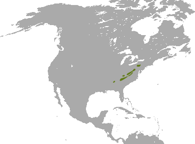 Appalachian Cottontail (Sylvilagus obscurus) range